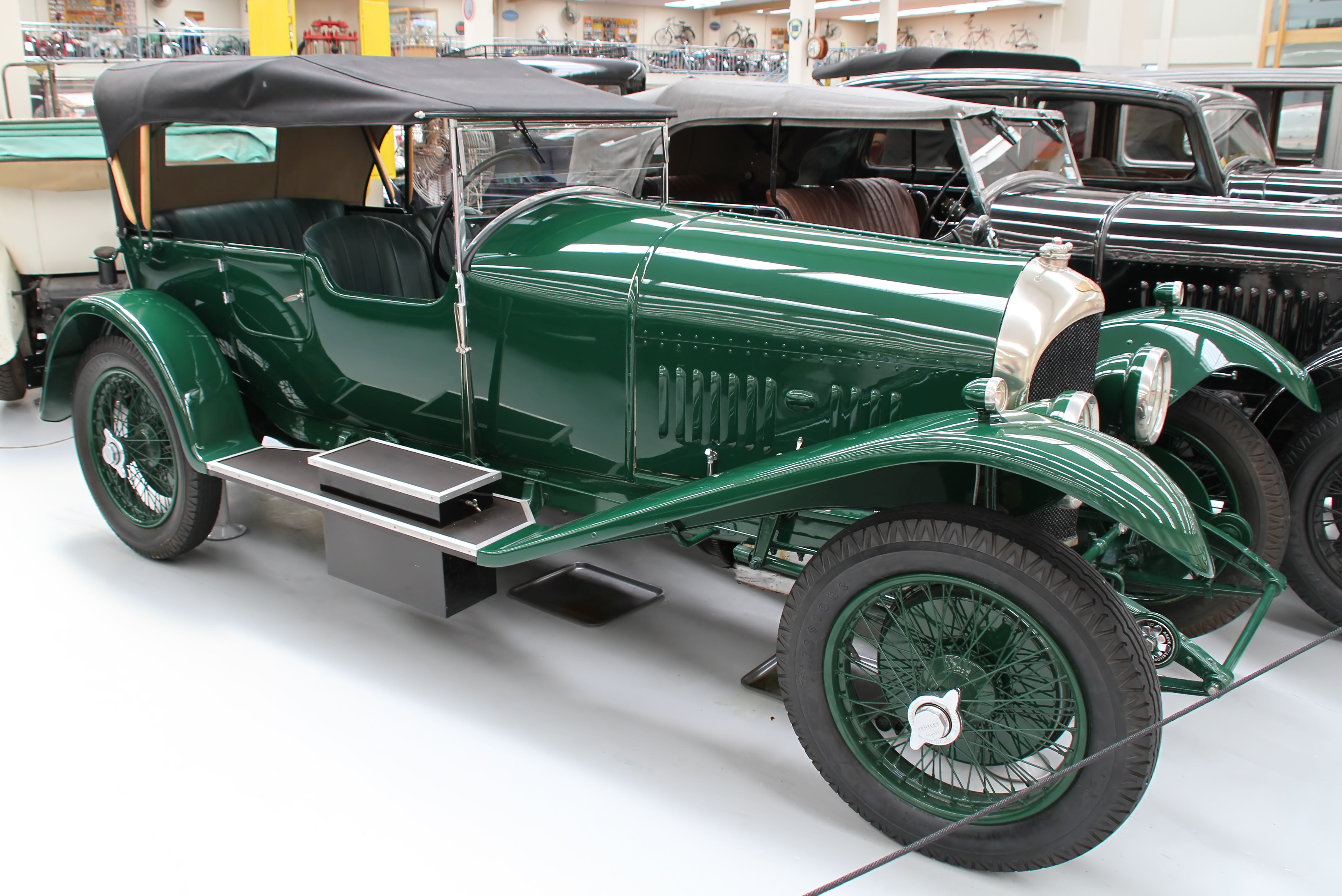 1923 Bentley 3-Litre tourer chassis 183 engine 198 Registration XM8888